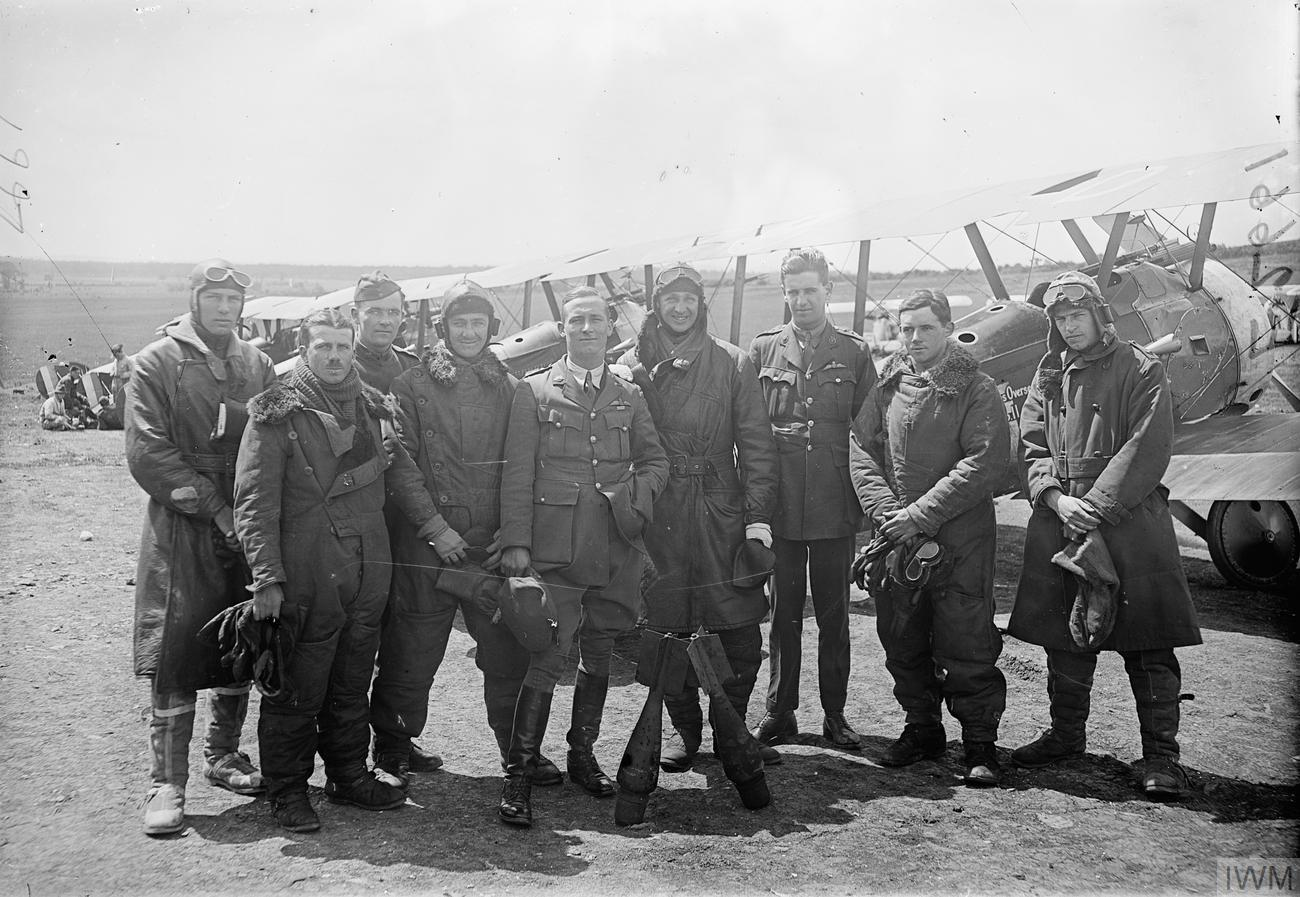 Western Front: Western Front (France), Nord Region (France), Clairmarais. The officers of A Flight, No. 4 Squadron, Australian Flying Corps (AFC), in full flying gear in front of line up of Sopwith Camel aircraft. Note presentation Camel and aircraft "D" first in line up. Left to right: Lieutenant (Lt) J. Browne Lt C. Burton Lt Scobie Lt R. Smallwood Captain (Capt) Arthur Cobby Capt [Elwyn] Roy King Lt R. McRae Lt A. Lockley Lt W. Armstrong.